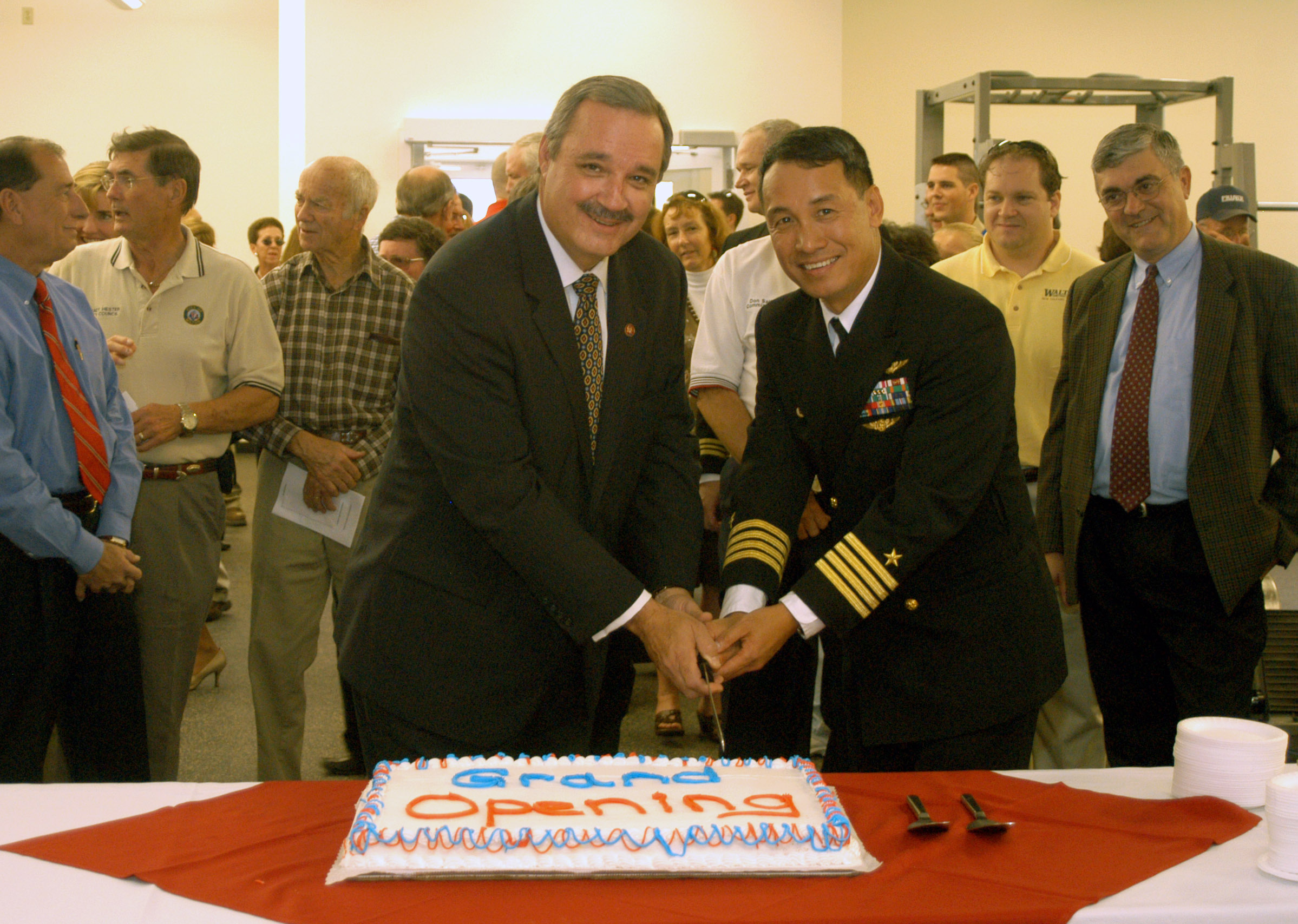 NAVAL AIR STATION WHITING FIELD, Fla. (Dec. 11, 2007) Congressman Jeff Miller and Capt. Enrique Sadsad, commanding officer, Naval Air Station Whiting Field cut the cake during the grand opening of the base's new fitness center. The nearly $14 million facility replaces one that was damaged during Hurricane Ivan. U.S. Navy photo by Jay Cope (Released)